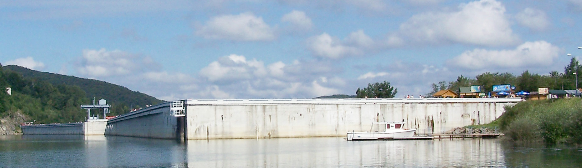 Dam on a lake Solina (Polish version)